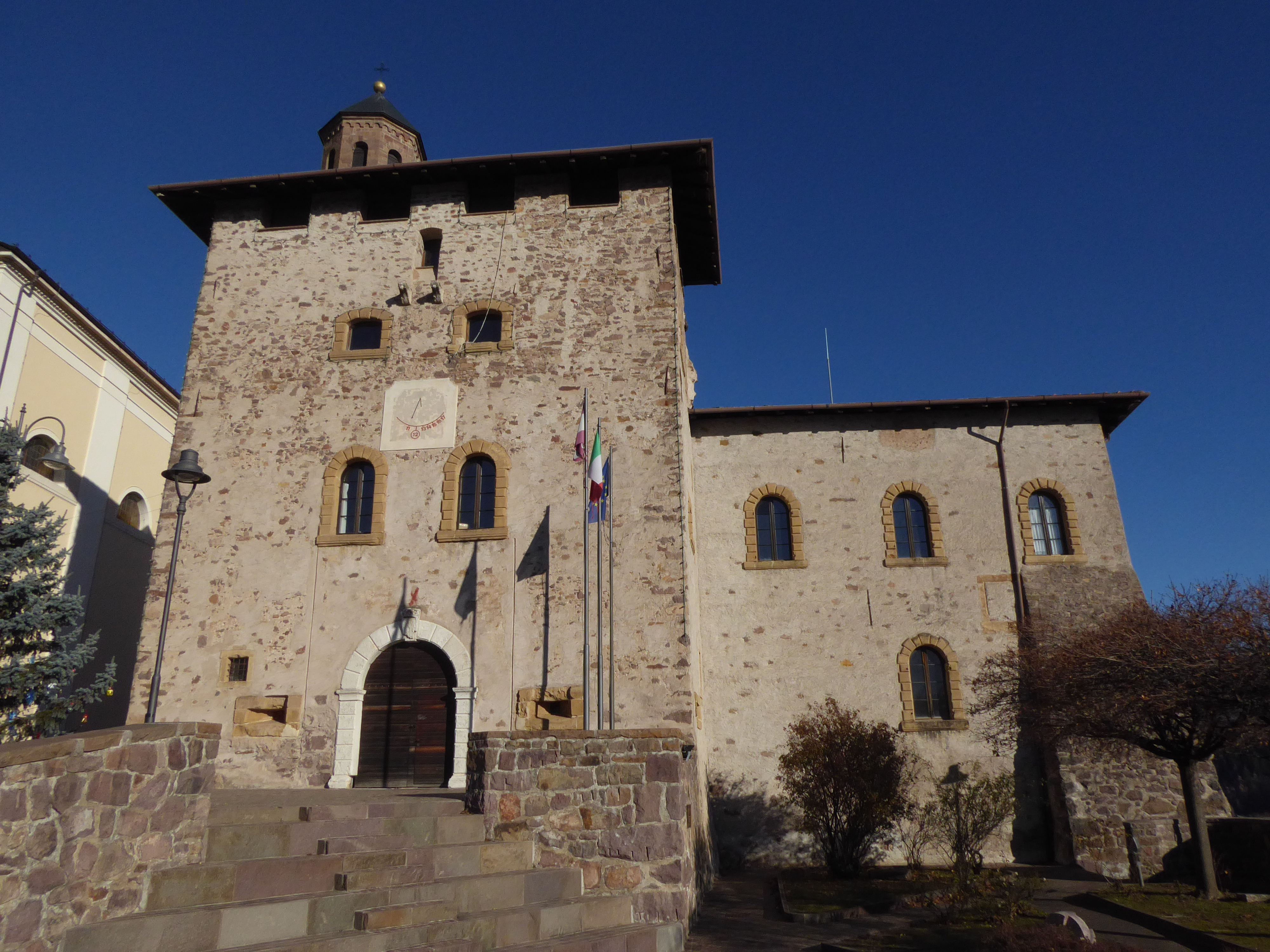 Fornace (Trentino, Italy) - Castel Roccabruna